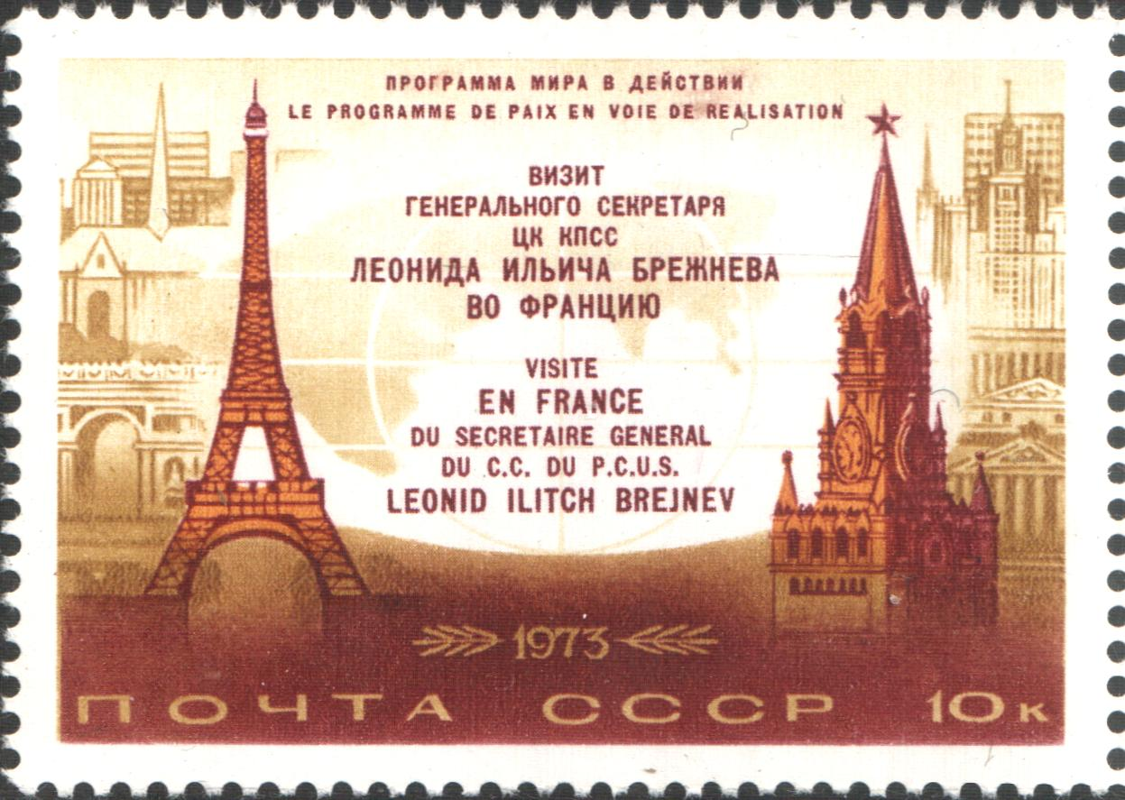 USSR stamp